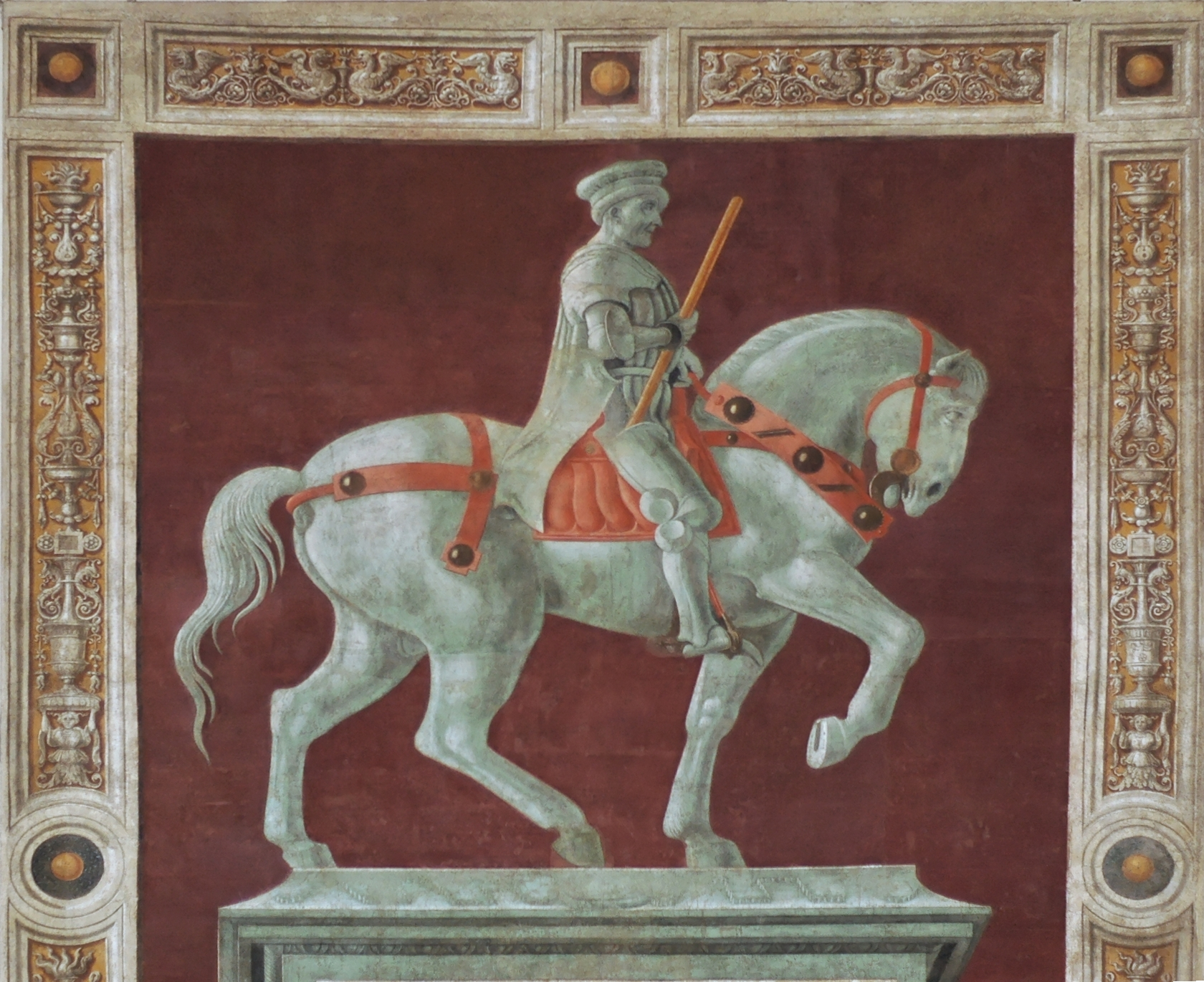 Equestrian monument to condottiere John Hawkwood, detail. Fresco in the nave of the Duomo of Florence, Italy.